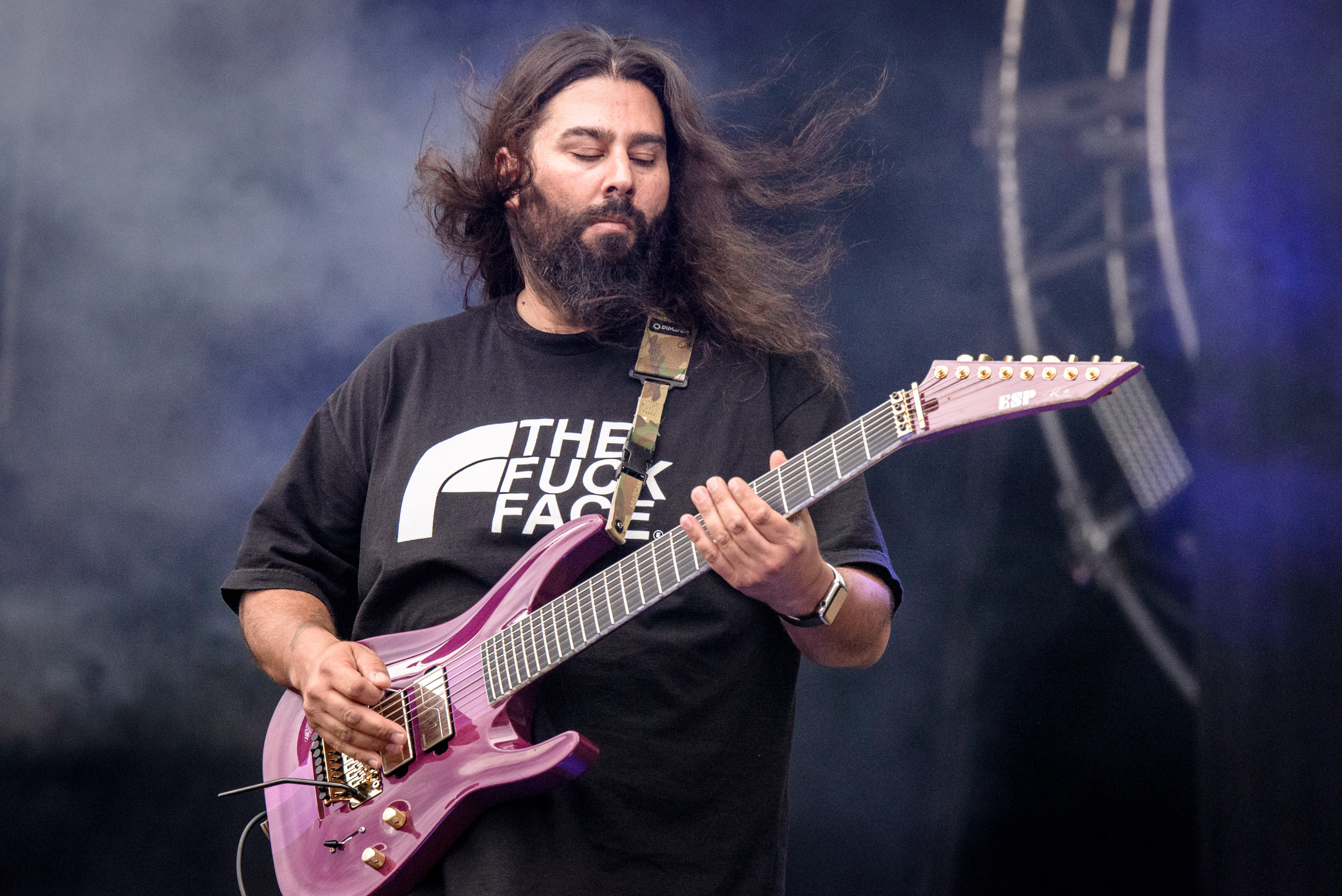 Deftones @ Rock im Park 2016